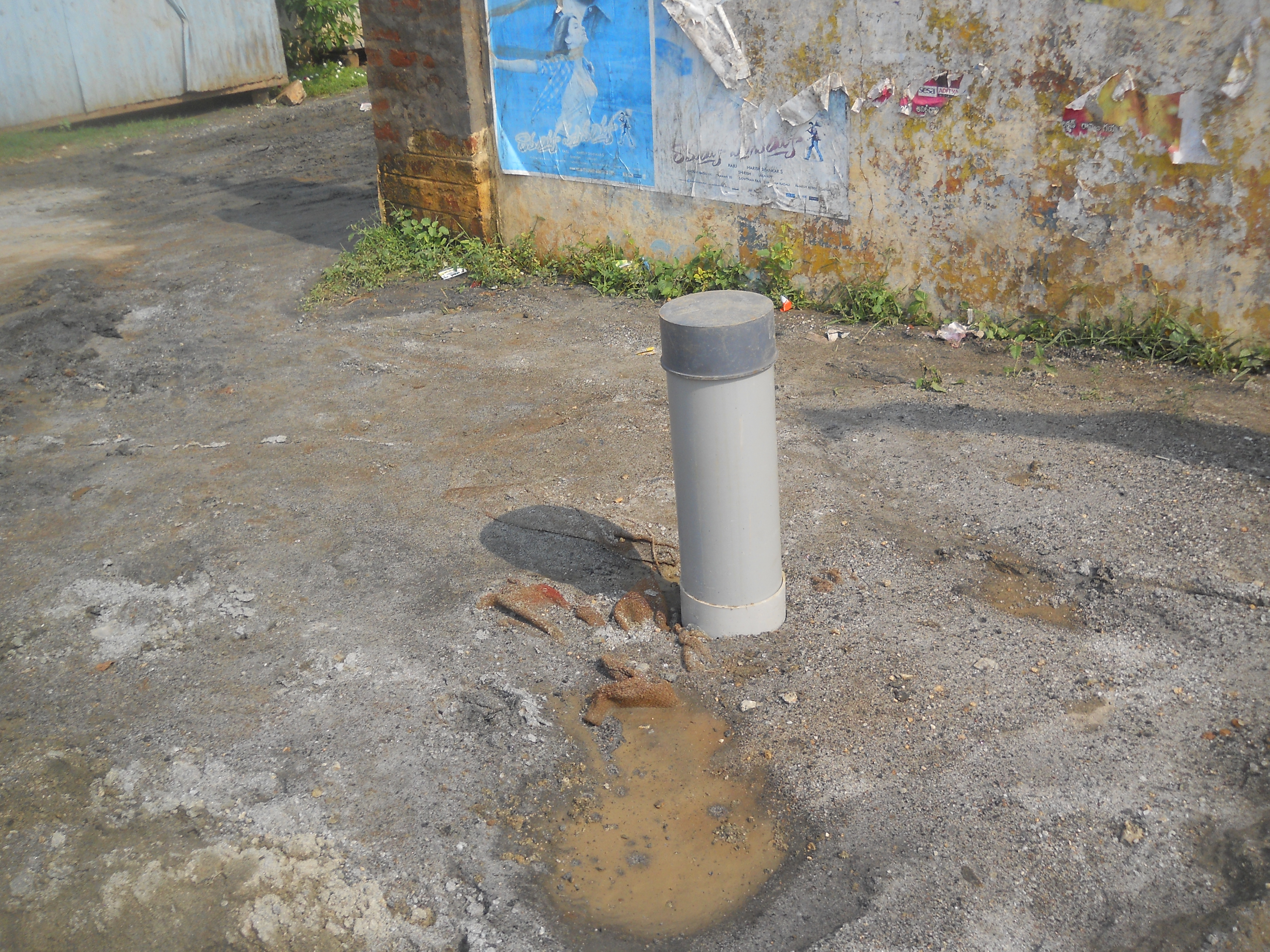 Water Bore well with dummi